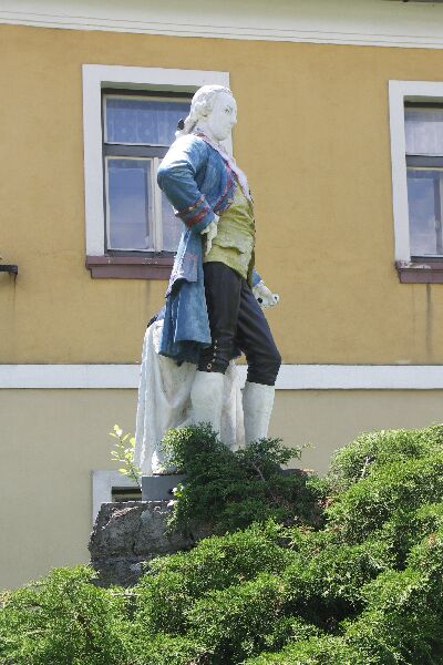 Statue of Emperor Joseph II from 1882 in Kunratice u Cvikova, Czech Republic